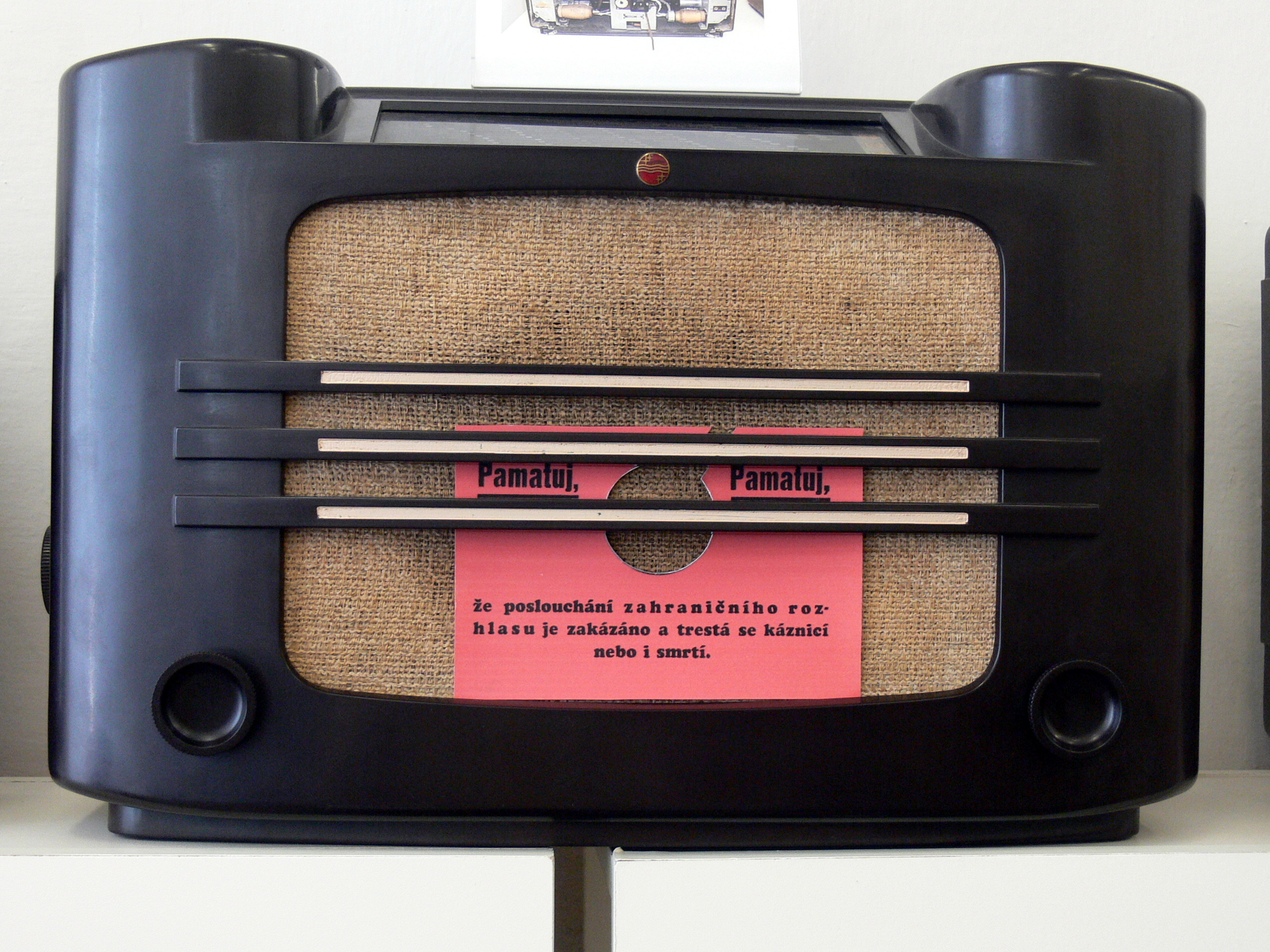 Museum in Hořice na Šumavě, Czech Republic. Radio receiver type "Philips 461A Arioso" ( 1937/38 ) with Czech warning to hear enemy radio during World War II.